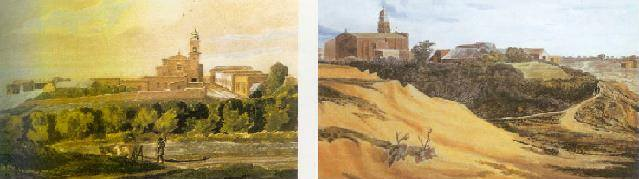 Painting by Emeric Essex Vidal where we can see San Isidro's church in 1817